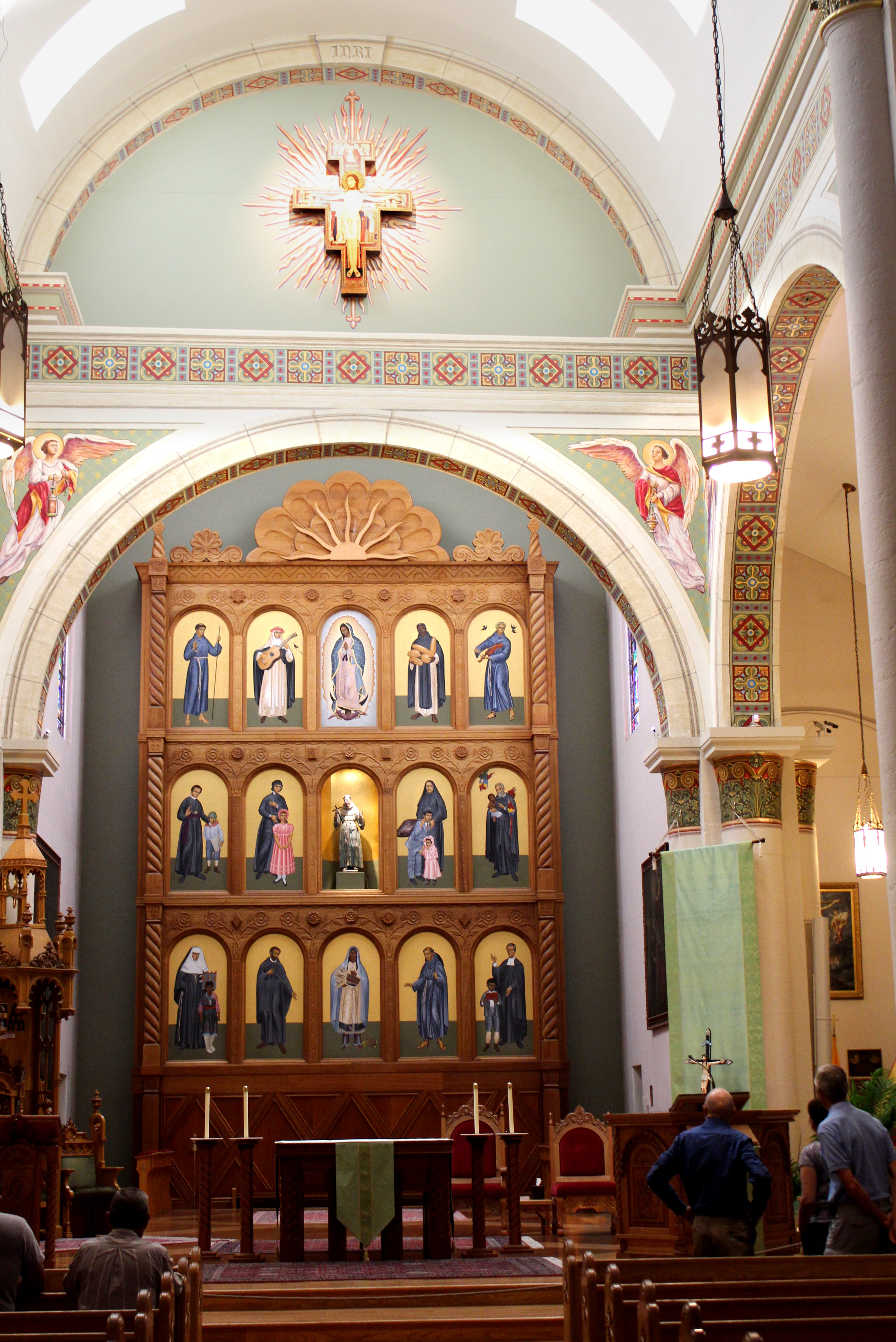 Santa Fe, New Mexico, USA